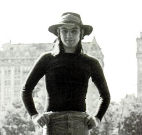 Trade ad for Elliott Randall's album Randall's Island.To better adapt it to his respective Wikipedia article, the ad was cropped and cleaned in a graphics editing program. The original can be viewed at the source below.